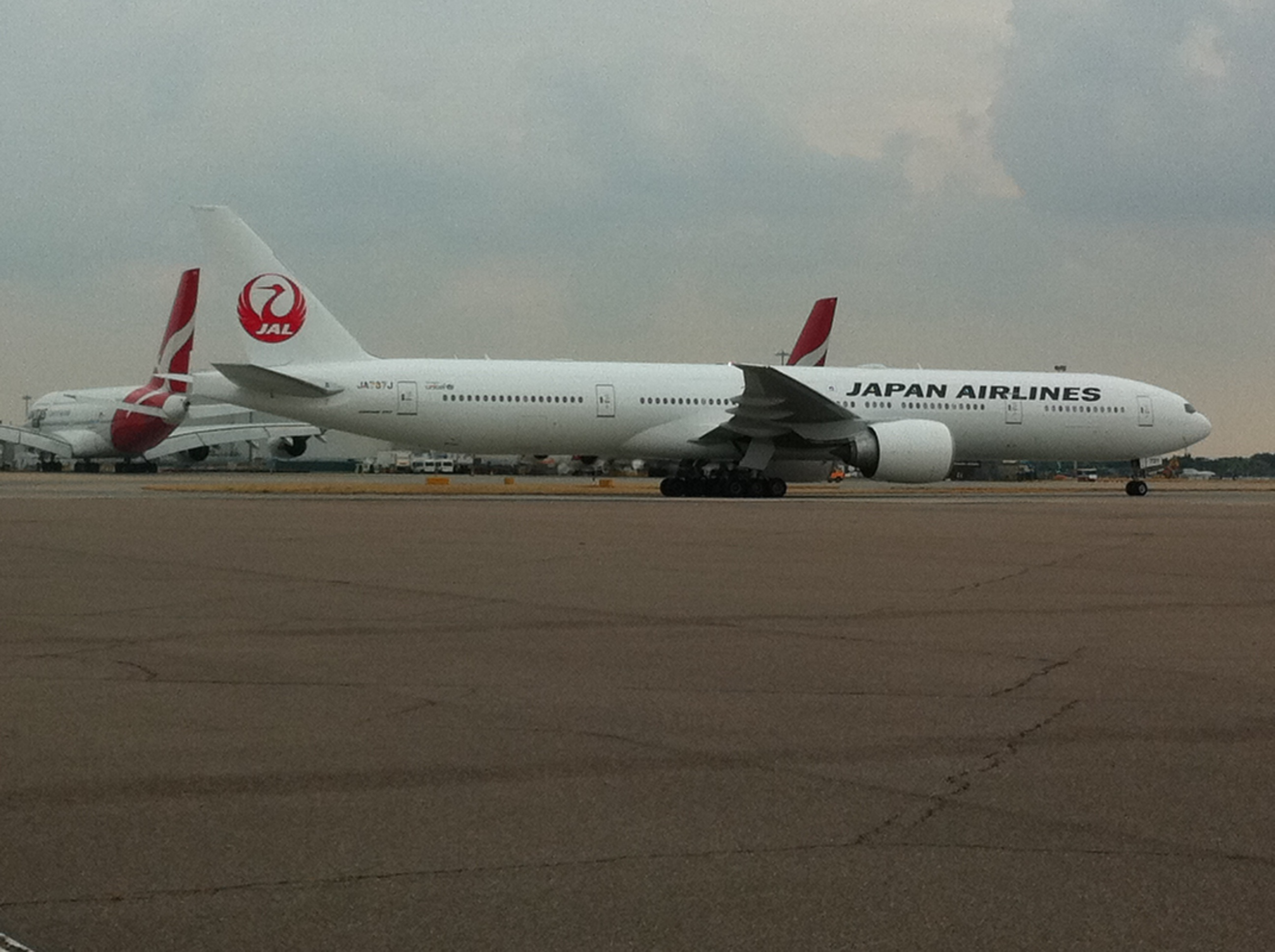 At London Heathrow